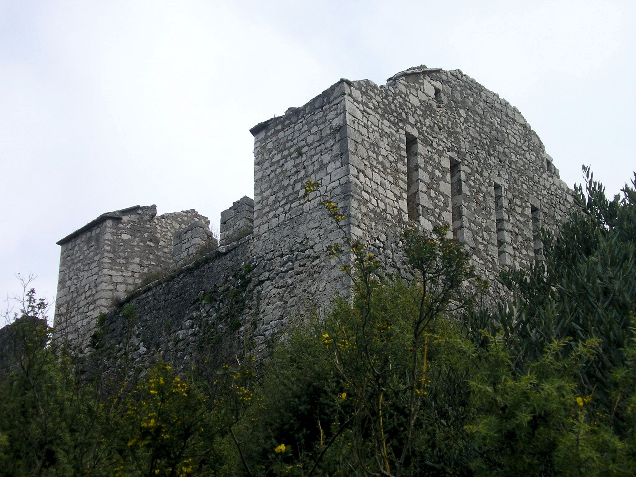 Old town Brštanik (Opuzen)